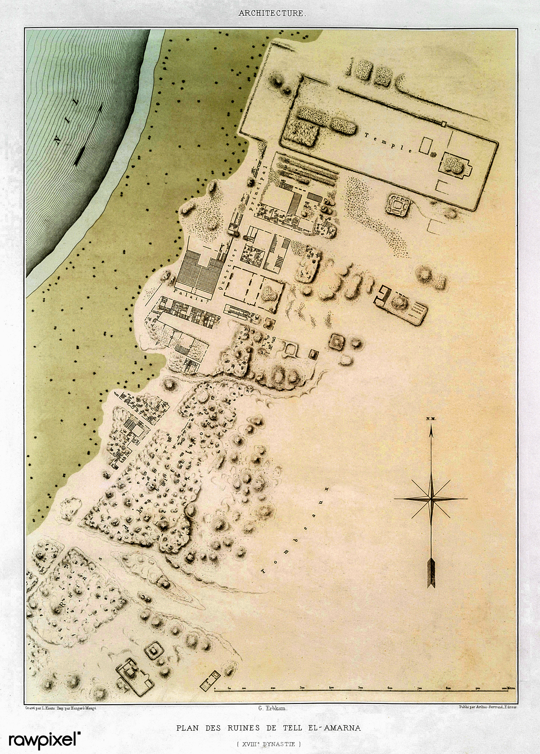 Plan of the ruins of Tell el-Amarna from Histoire de l'art égyptien (1878) by Émile Prisse d'Avennes (1807-1879).Digitally enhanced by rawpixel.